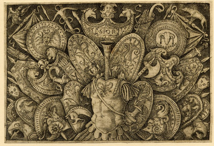 Engraving by Giovanni Antonio da Brescia, c. 1500-1519. British Museum